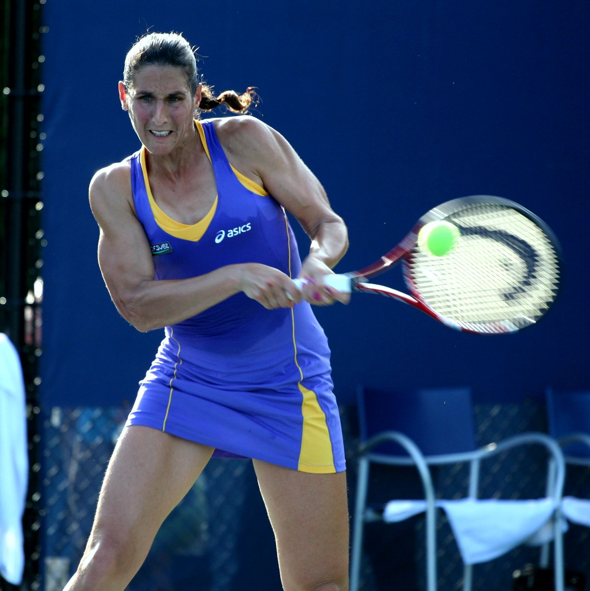 Virginie Razzano at the 2011 U.S. Open - Monday, Aug. 29, 2011